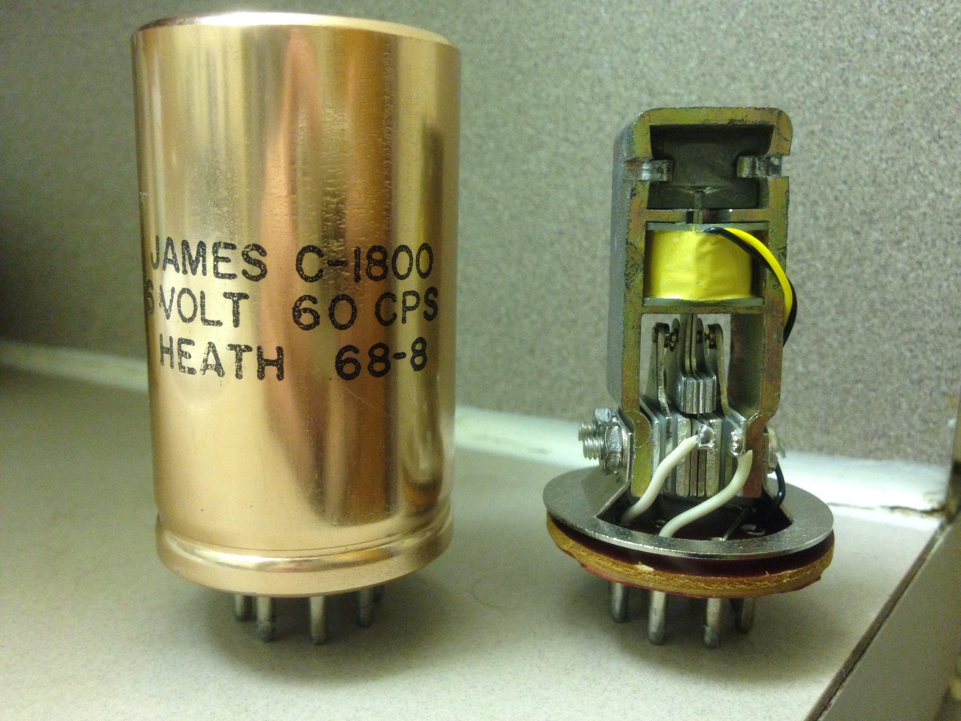 A pair of 1968 Heathkit vibrators. The aluminum cap has been removed on the right and the inner components can be seen